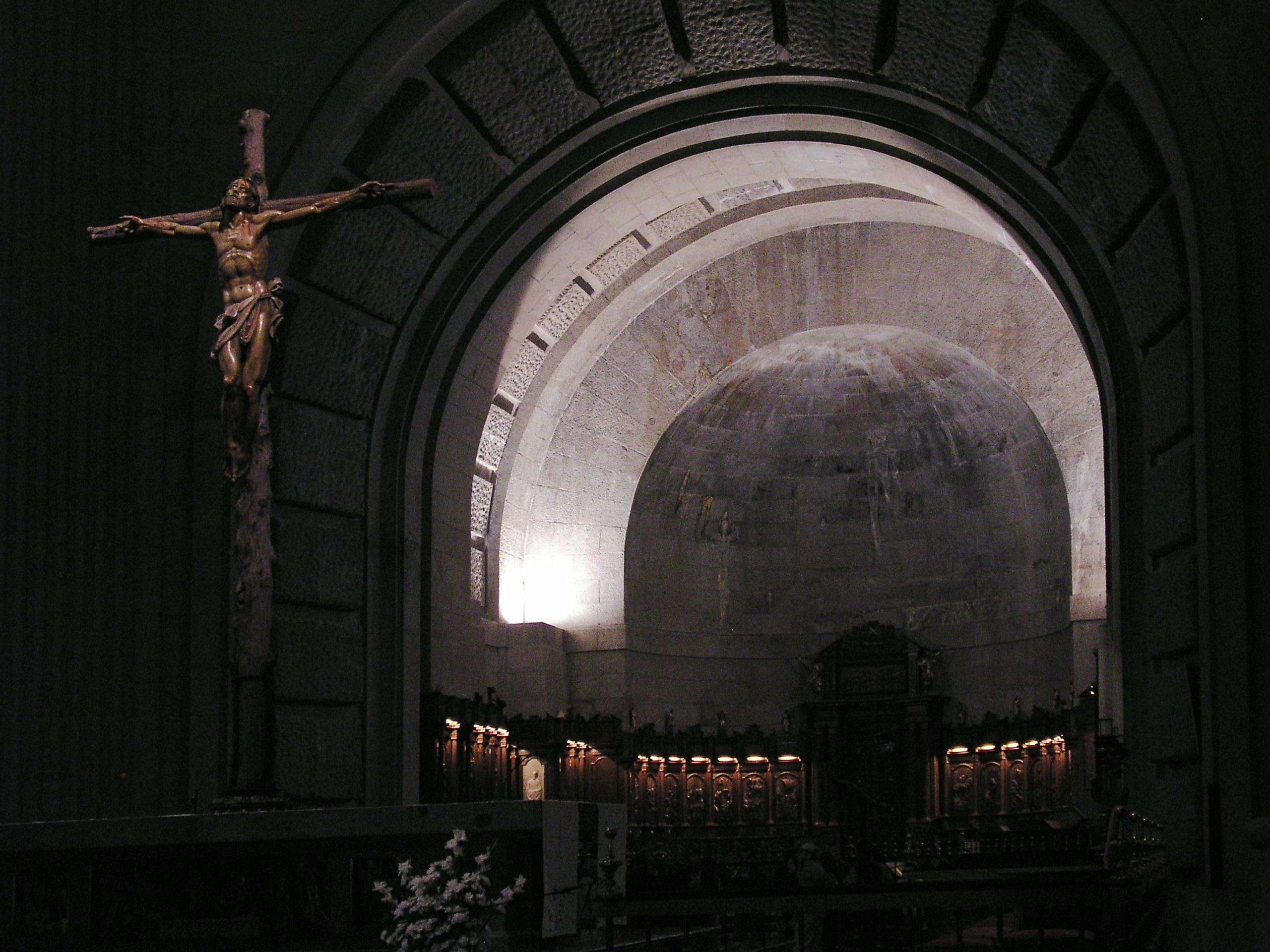 Valle de Los Caidos, Madrid, Spain. High Altar with Christ crucified. The photo was taken by Håkan Svensson (Xauxa) the 15th of May, 2005.